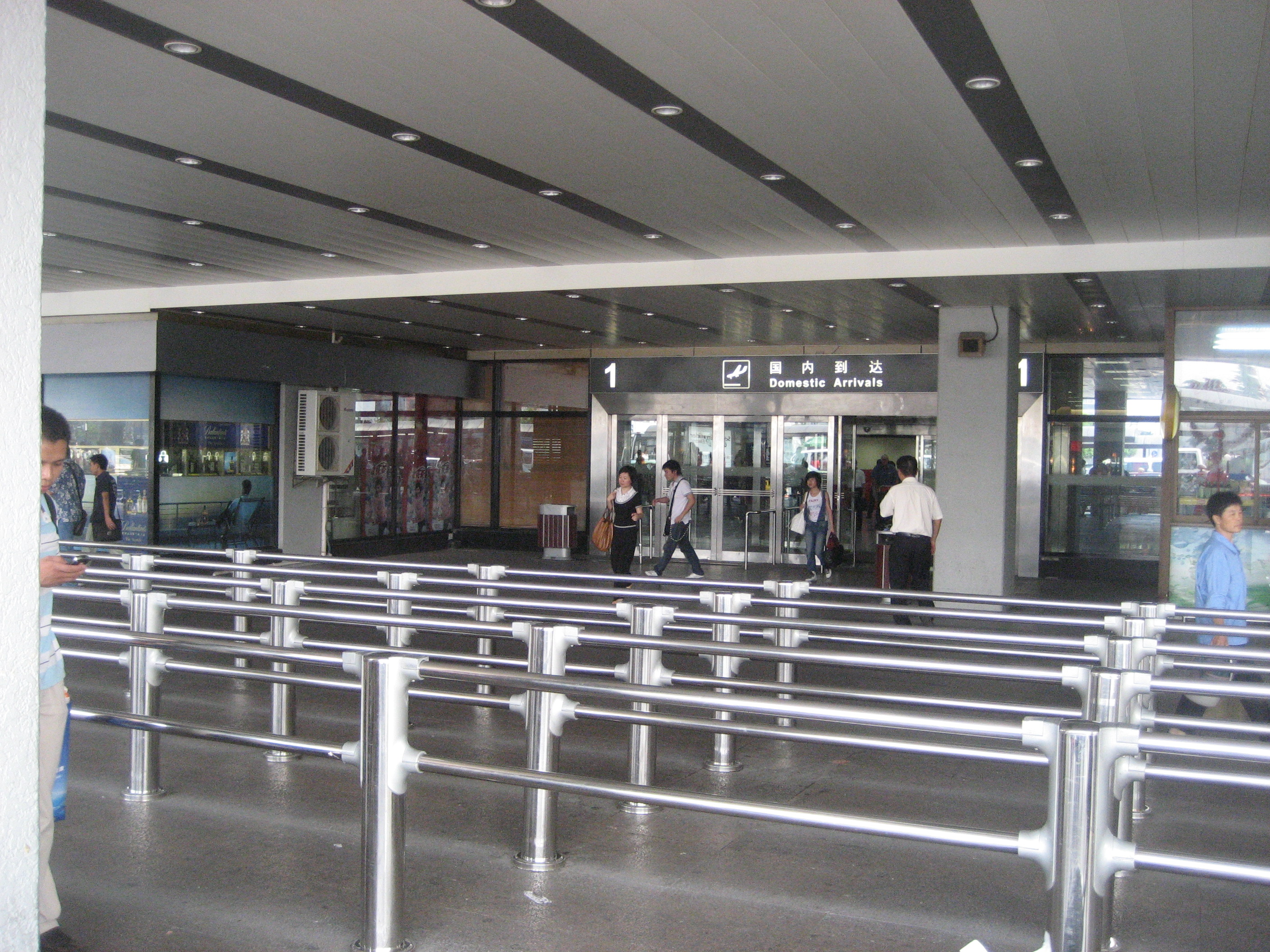 Shanghai Hongqiao International Airport